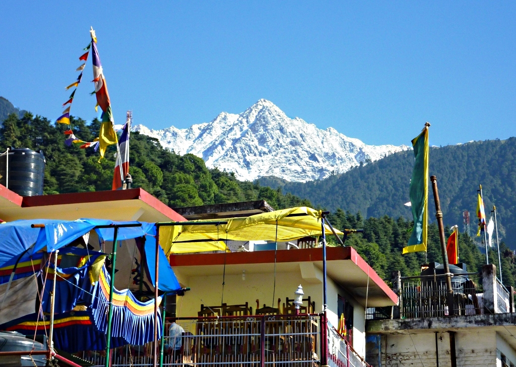 I took this photo on a visit to India in 2010.